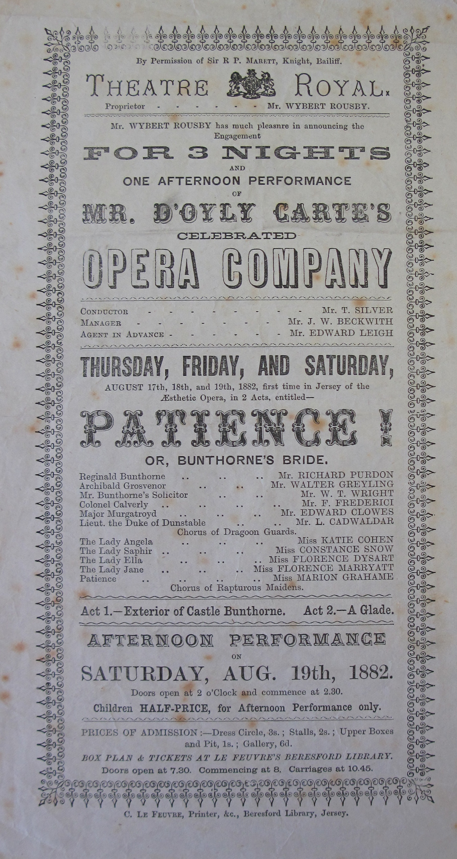 Playbill for the Theatre Royal, Jersey, 1882: D'Oyly Carte's opera company in "Patience" - August 17-19 This work is in the public domain in its country of origin and other countries and areas where the copyright term is the author's life plus 70 years or less. This work is in the public domain in the United States because it was published (or registered with the U.S. Copyright Office) before January 1, 1923. This file has been identified as being free of known restrictions under copyright law, including all related and neighboring rights.